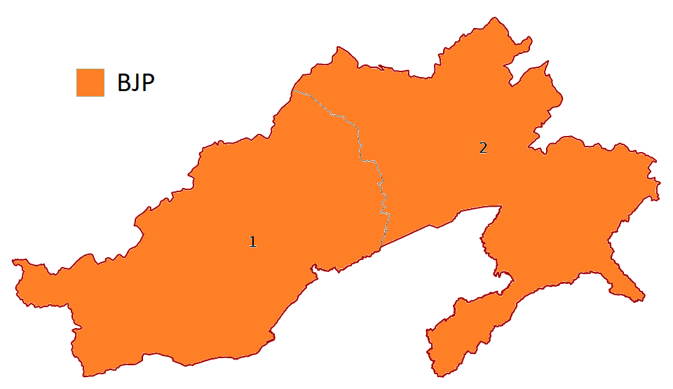 Seat Sharing of NDA in Arunachal Pradesh in 2019 Indian General Election